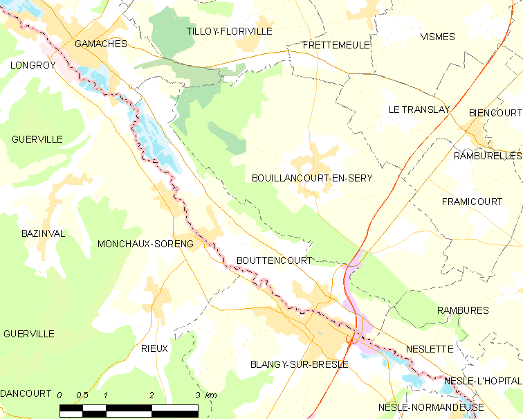 Map of French municipality Bouttencourt